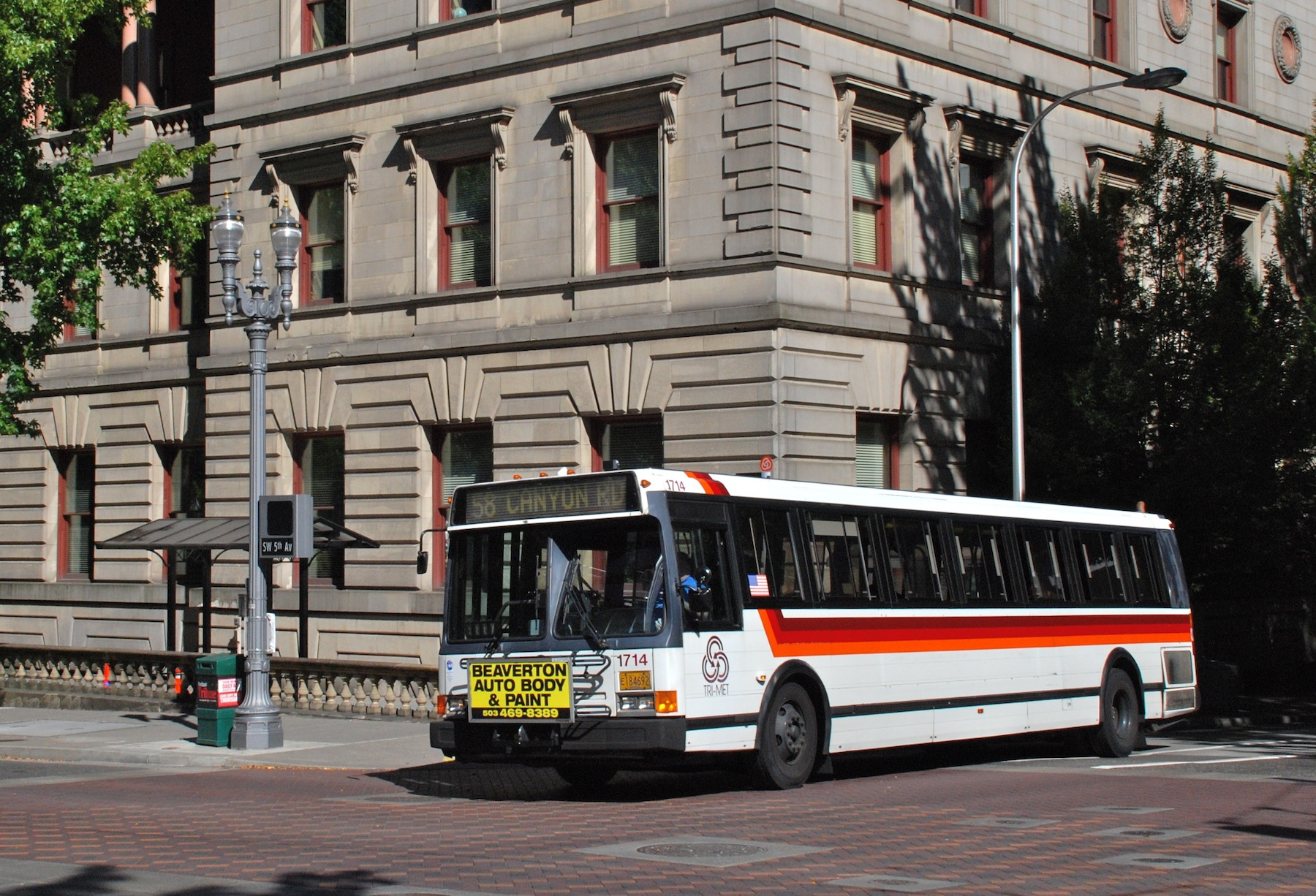 Bus 1714 of TriMet, a 1992 Flxible Metro bus, on Jefferson Street at 5th Avenue, in downtown Portland. It is beginning an outbound trip on line 58-Canyon Road, to Beaverton. The building in the background is Portland City Hall.